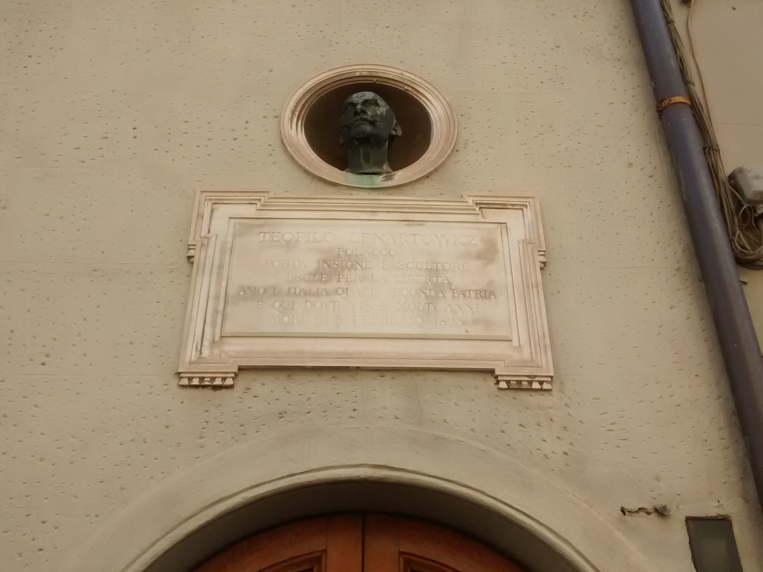 Teofilo Lenartowicz sign at Florence at Via Montebello 26